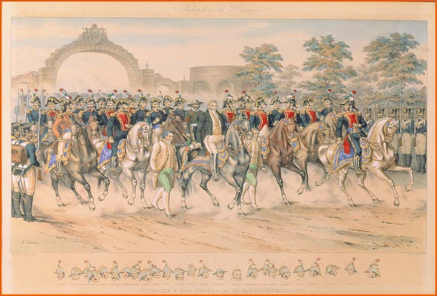 A full-length, posthumous paint of the Trigarante Army by Ramón Sagredo, to be hanged at Iturbide Hall in the Mexican Imperial Palace.